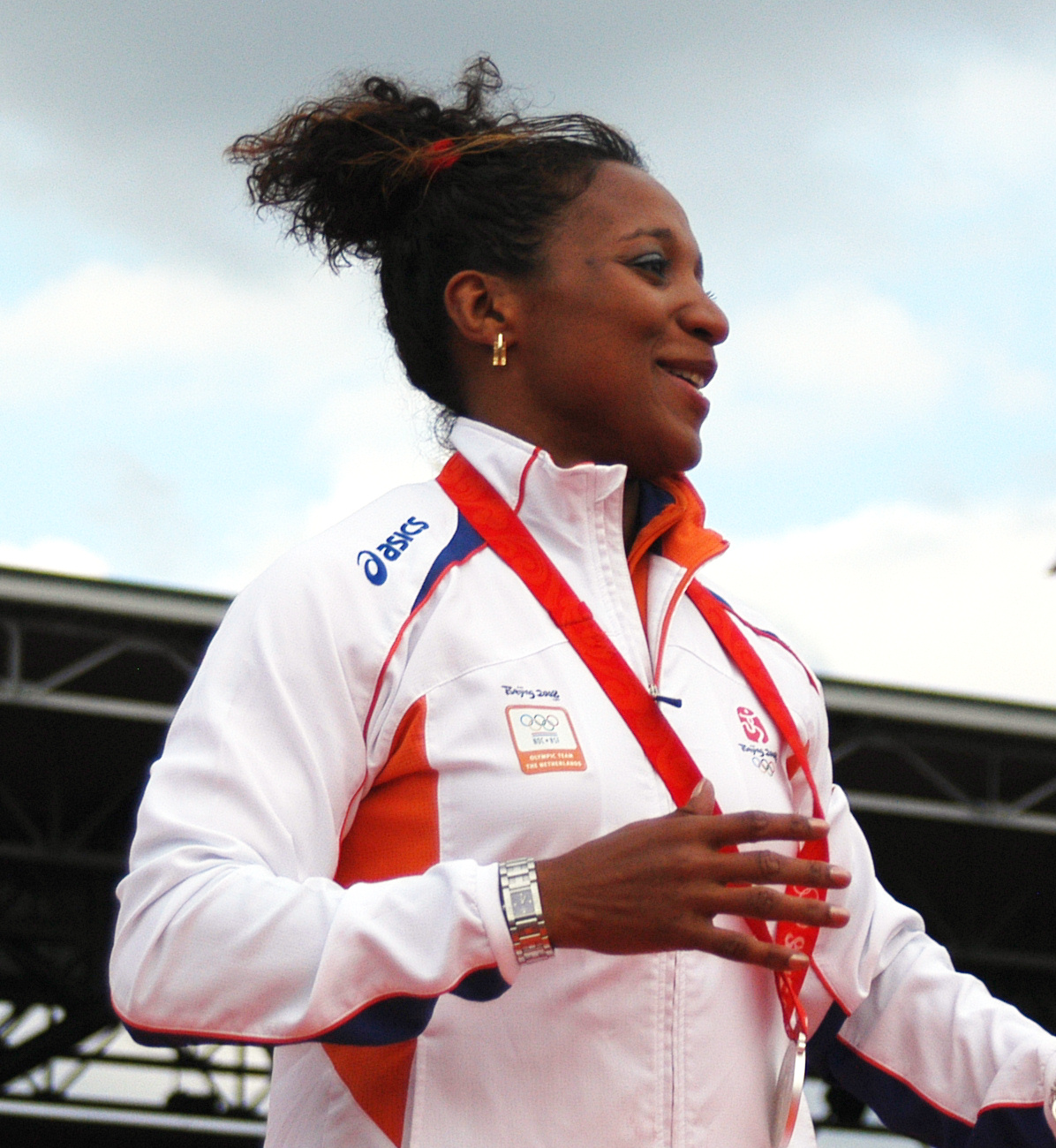 Deborah Gravenstijn at the Olympic welcome in the Olympic Stadium in Amsterdam, the Netherlands